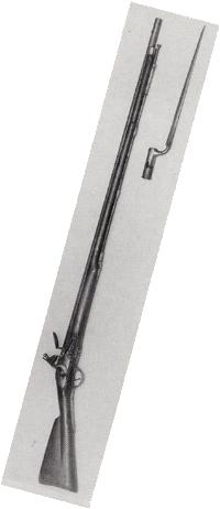 Brown Bess Musket, the British Infantryman's Basic Arm from About 1740 until the 1830s